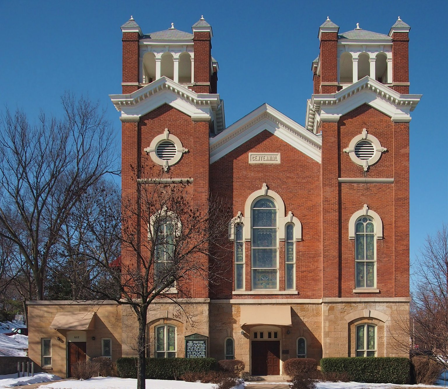 First Presbyterian Church, 602 Vermillion St, Hastings, Minnesota, USA. Viewed from the east.